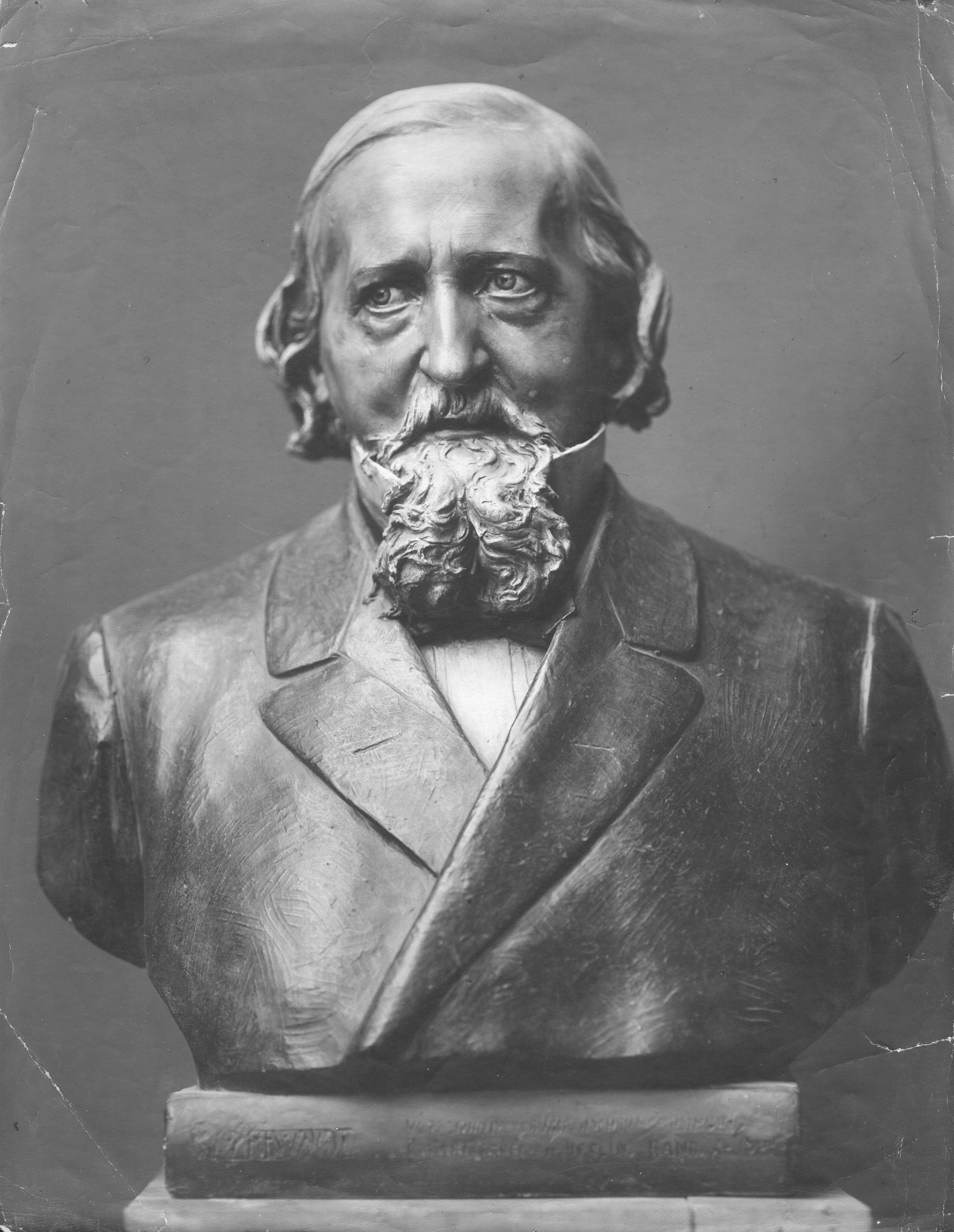 bust of Wilhelm Ahlwardt by Wilhelm Wandschneider